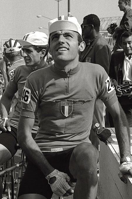 The Italian cyclist Costantino Conti is photographed at the start of men's road race. He is next to other cyclists; behind him, the Italian mate Flavio Martini. Conti shall end thirty-first at 6 minutes and a half from the Italian Pierfranco Vianelli, gold medal winner. Mexico City (Mexico), October 23, 1968.